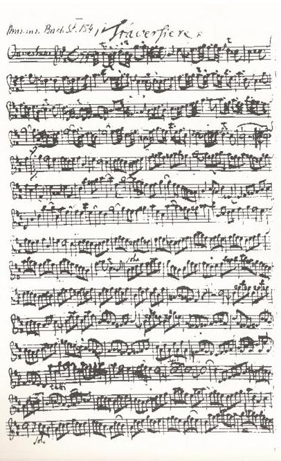 First page of the flute part, autograph (Orchestral Suite No. 2 in B minor for flute, strings and continuo, BWV 1067, from Orchestral Suites BWV 1066–1069)